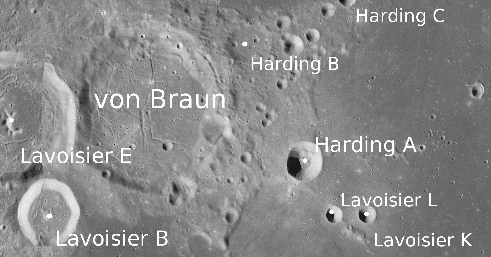 Crater von Braun (detail of LRO - WAC global moon mosaic; Mercator projection)